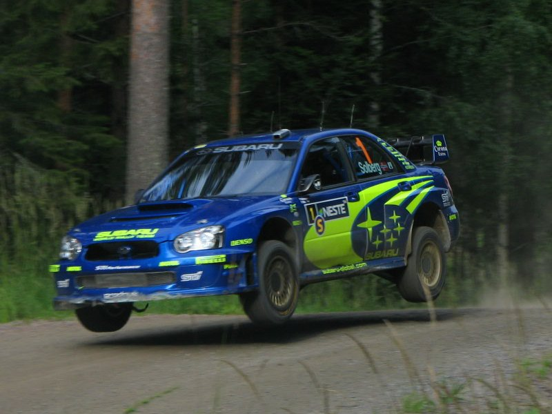 Petter Solberg driving his Subaru Impreza WRC2004 at the 2004 Rally Finland.